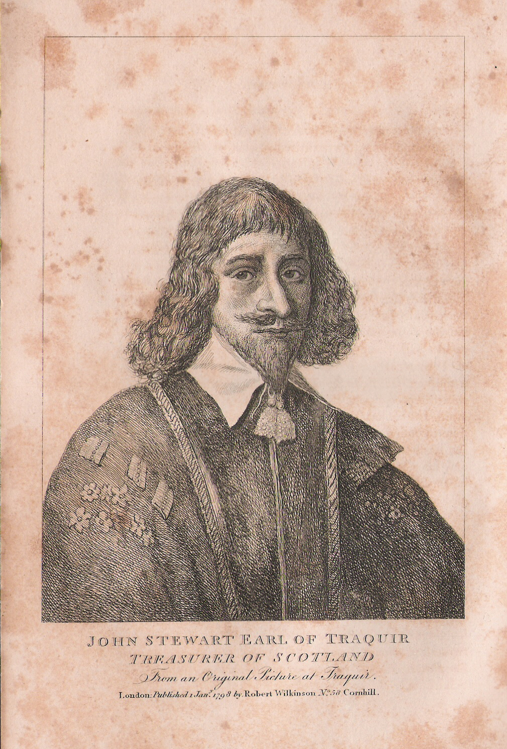 Scan of an engraving in An Historical Account of the Senators of the College of Justice, Edinburgh, 1849, a book now out of copyright. David Lauder 19:35, 14 February 2007 (UTC)